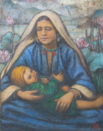 Mother and Child, Kashmir